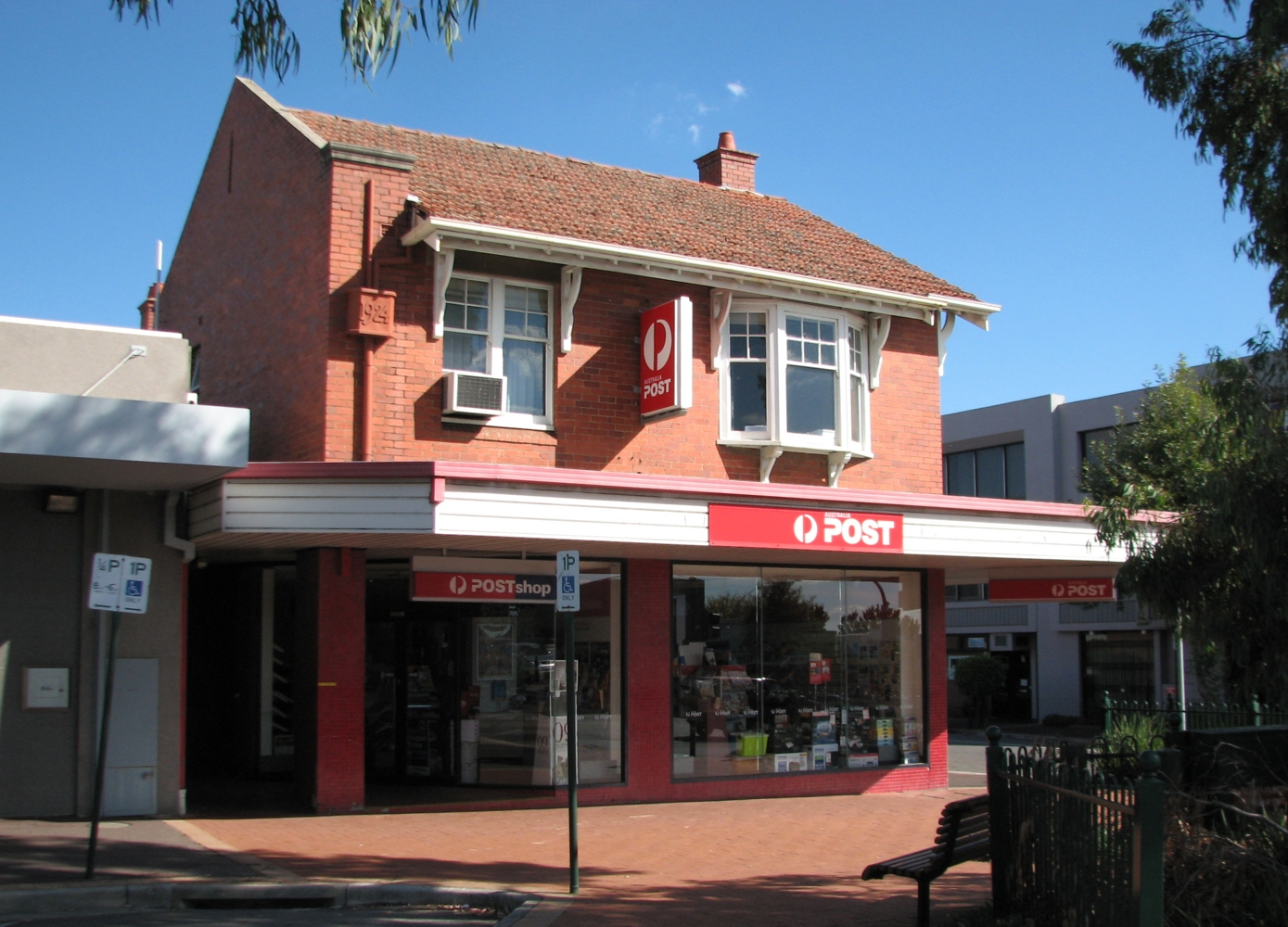 Mitcham Post Office, Whitehorse Road, Mitcham, Victoria, Australia